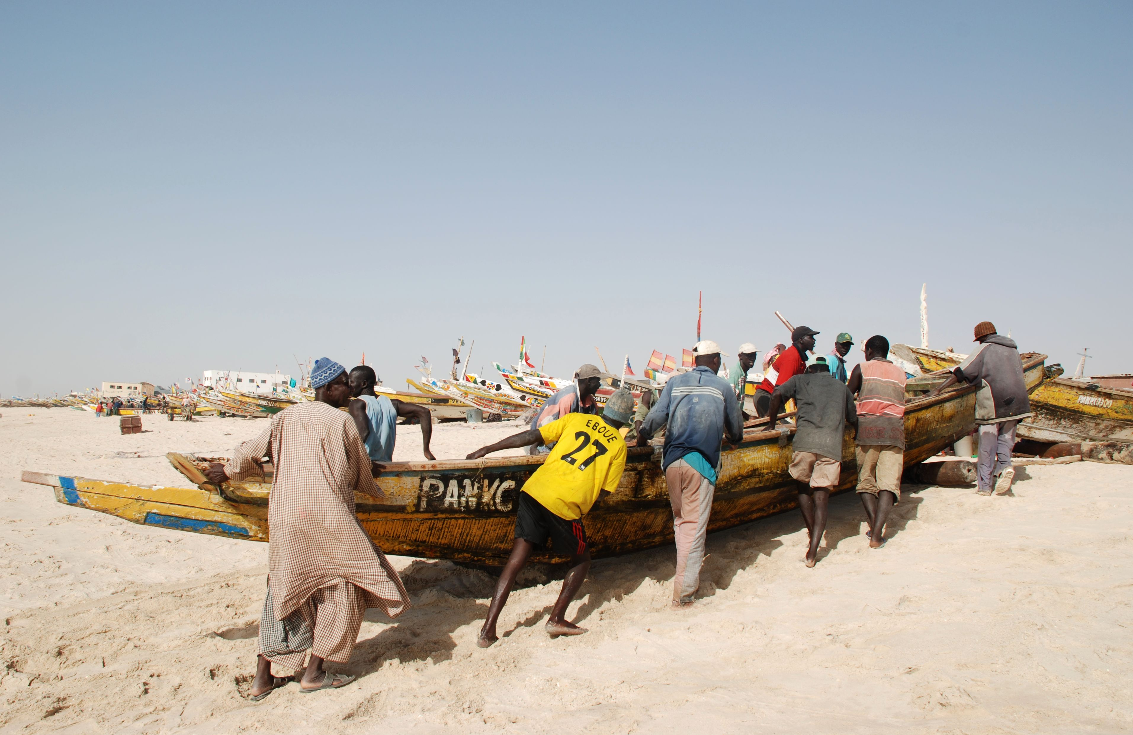 Nouakchott, Mauritania, Port de Pêche